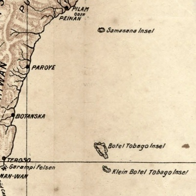 Botel Tobago Insel (Karte 1905)